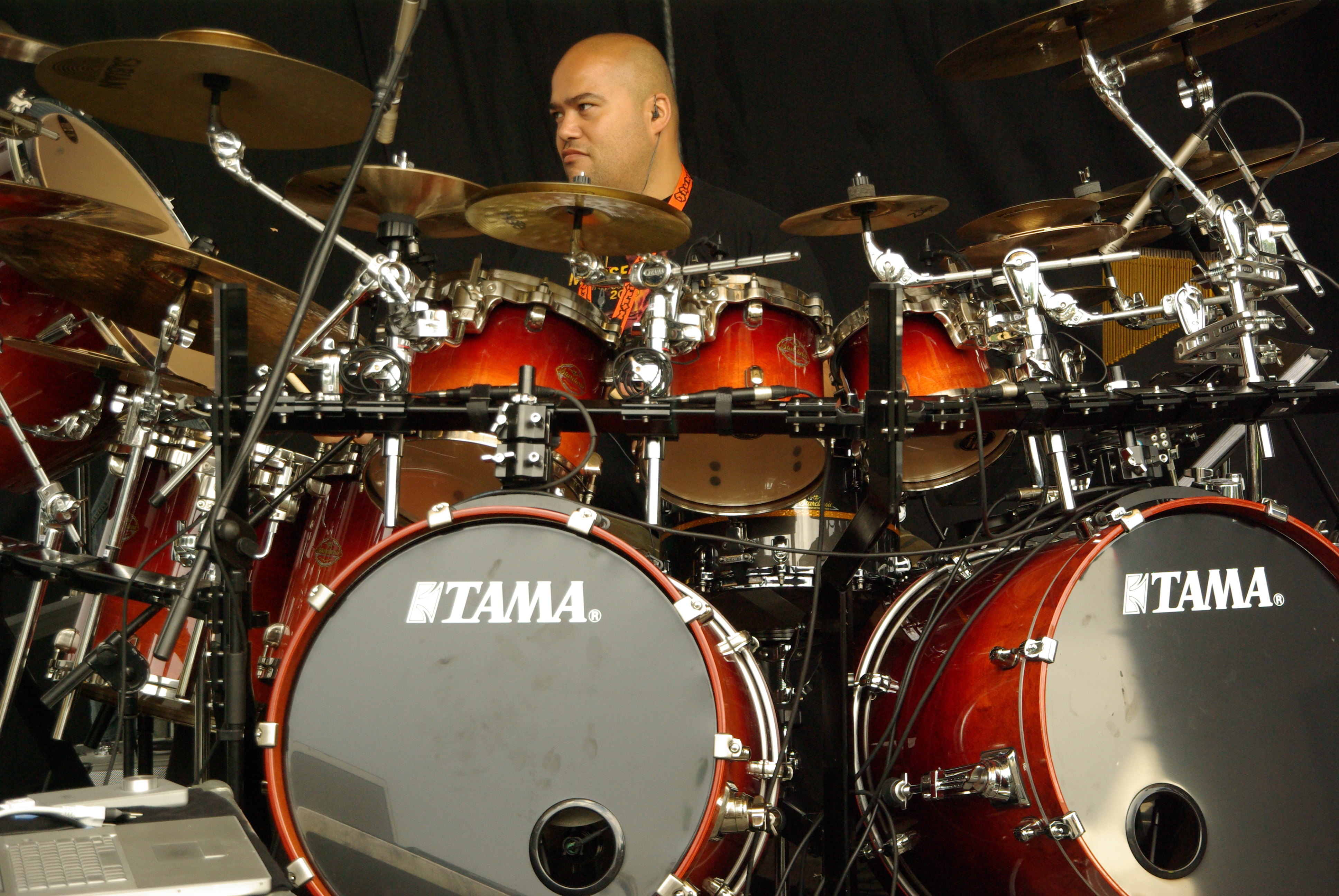 collin Leijenaar during Loreley Open gig with Neal Morse.